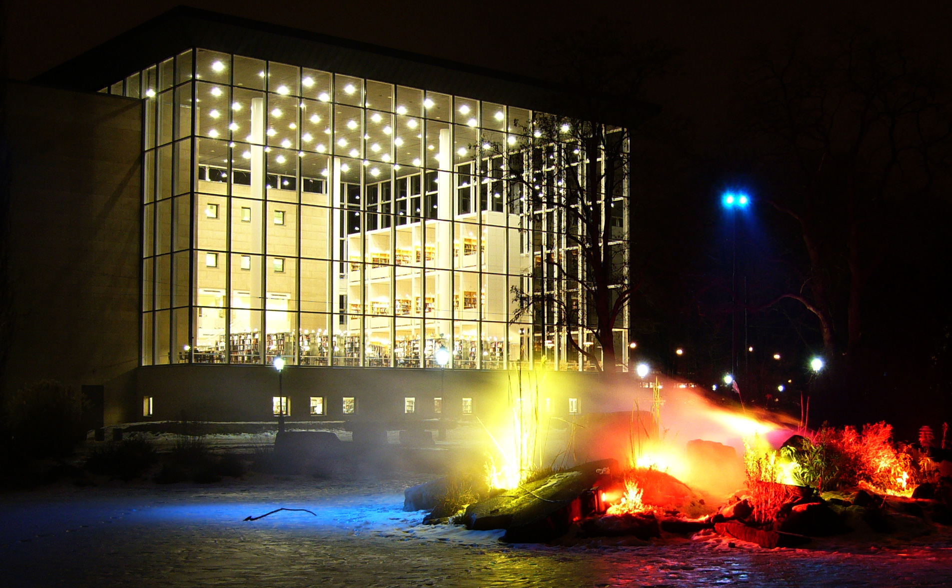 Malmö City Library, Ljusets kalender. Photo by Knuckles.